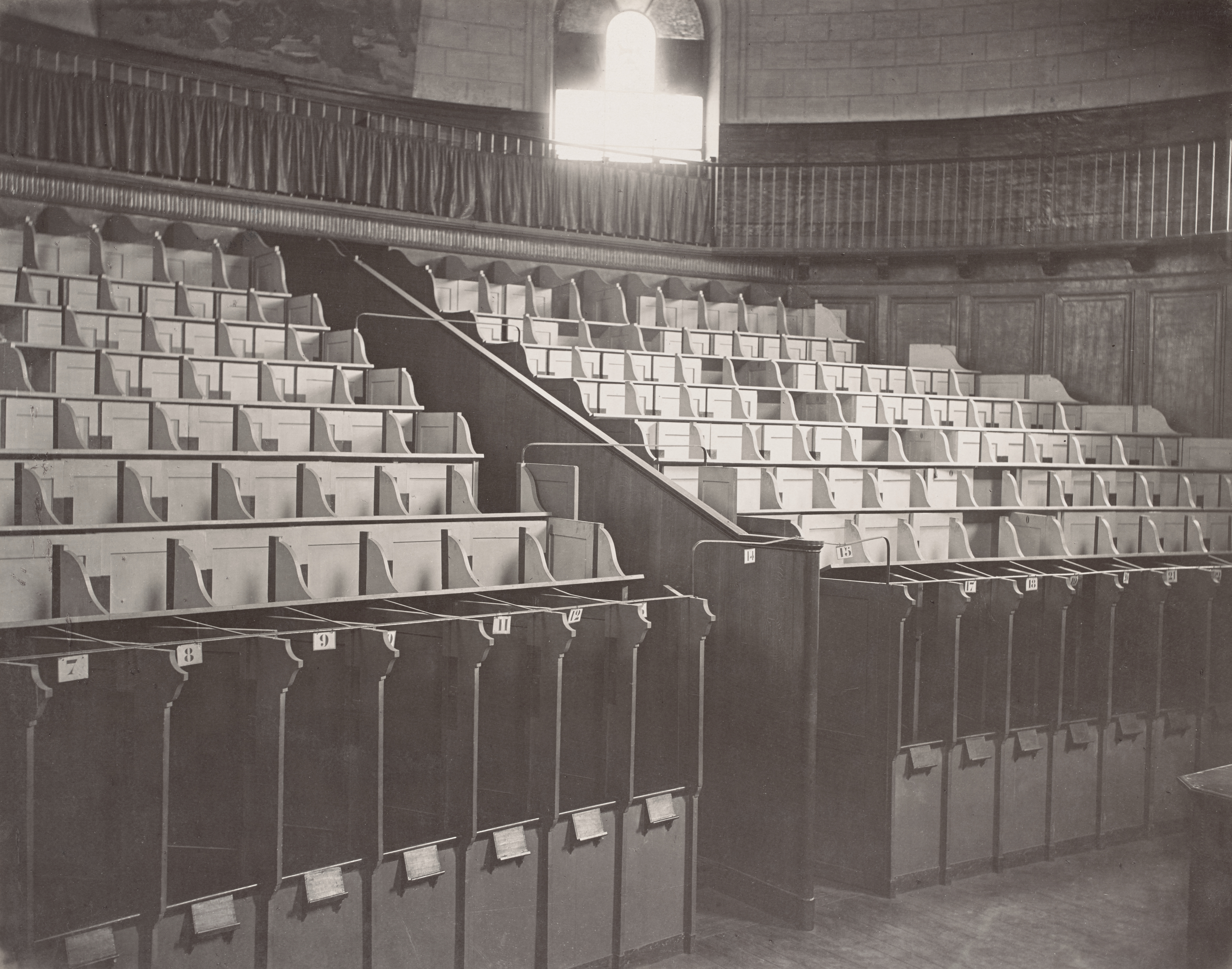 Maison des Jeunes Détenus: Intérieur de la Chapelle: interior of the chapel showing rows of choir stall type seats, in tiered rows.